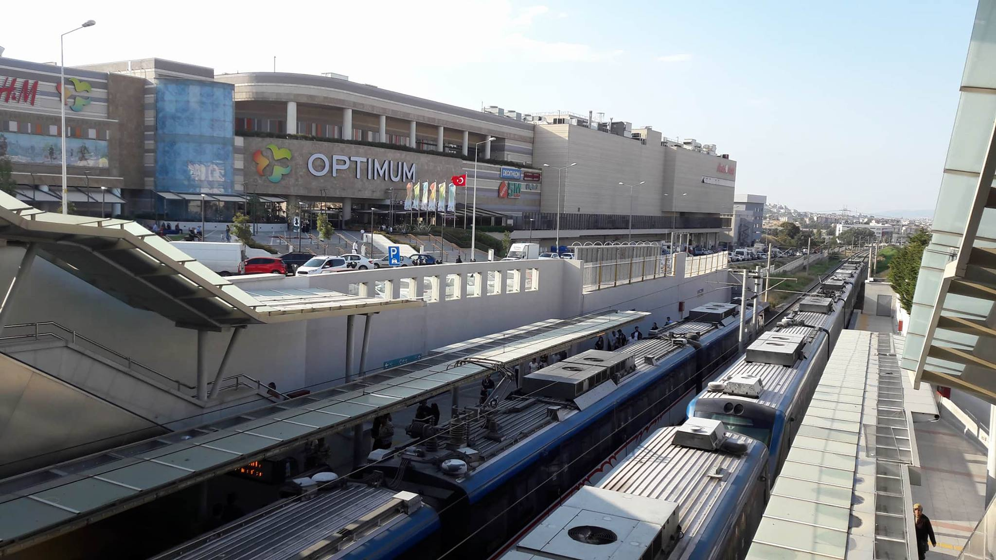 Two IZBAN trains meet at ESBAŞ station.